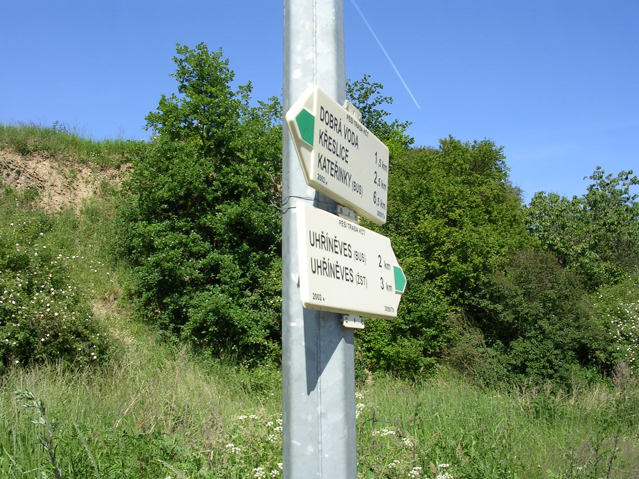 Pitkovice, Prague, the Czech Republic. A hiking fingerpost in Pitkovičky.